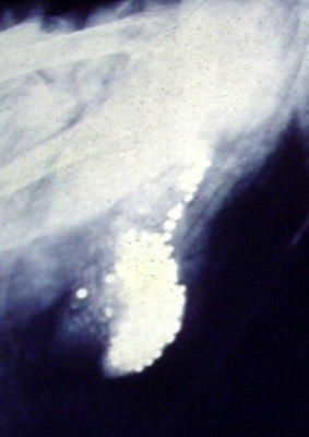 Radiography of swans found dead in the Audomarois marsh (north of France), highlighting a large number of lead shot from hunting cartridge, and ingested with the Grit. The swans that feed in front of hunters's huts or in front of shooting positions are very frequently victim of "waterfowl lead poisoning". Here the number of lead is exceptionally high (some hundreds), and caused the death of the animal (12 small lead pellets are enough to kill an adult swan within a few days. The poisoned swans were also more likely to collide with an obstacle (power line, for example) or vehicle. Their body will be a new source of environmental contamination of toxic lead. It is noted that a new swan population has recovered in the late 1990s in the marsh audomarois, but it feeds mainly on land, which is a source of conflict with the gardeners who cultivate drained areas and emergent marsh (Is this an adaptive behavior, the result of natural selection, with the appearance of a new behavior limiting the risk of ingesting lead pellets) It should be noted that the occurrence and prevalence of lead poisoning avian sontplus higher in Europe and North America where they were first studied. See data collected by RAFAEL MATEO (Instituto de Investigación en Recursos Cinegéticos IREC, CSIC, UCLM, JCCM) for his presentation WILD BIRDS IN Lead Poisoning IN EUROPE AND THE REGULATIONS ADOPTED BY DIFFERENT COUNTRIES upon Conference entitledIngestion of Spent Lead Ammunition; Implications for Wildlife and Humans (organized by the "Peregrine Fund" (Boise State University Idaho. May 12-15, 2008). Proceedings of the conference, which led to the book: [https: / / / 3382279 Ingestion of Spent Lead Ammunition from: Implications for Wildlife and Humans, co-written by Richard T. Watson, Mark Fuller, Mark Pokras, Grainger Hunt] 2009/04/28; ISBN/EAN13: 0961983957 / 9780961983956, 394 pages.